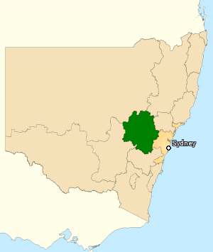 Incorporates or developed using Administrative Boundaries ©PSMA Australia Limited licensed by the Commonwealth of Australia under Creative Commons Attribution 4.0 International licence (CC BY 4.0). Derived from State and Territory Boundaries from the Australian Bureau of Statistics under Creative Commons Attribution 2.5 Australia license (CC BY 2.5 AU)